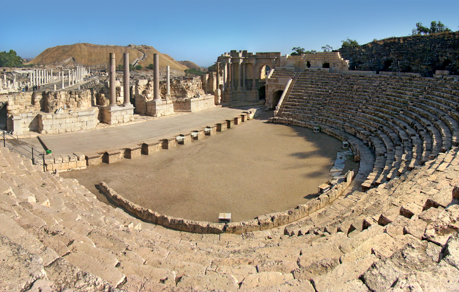 Roman theatre of Scythopolis, Beit She'an, Israel.